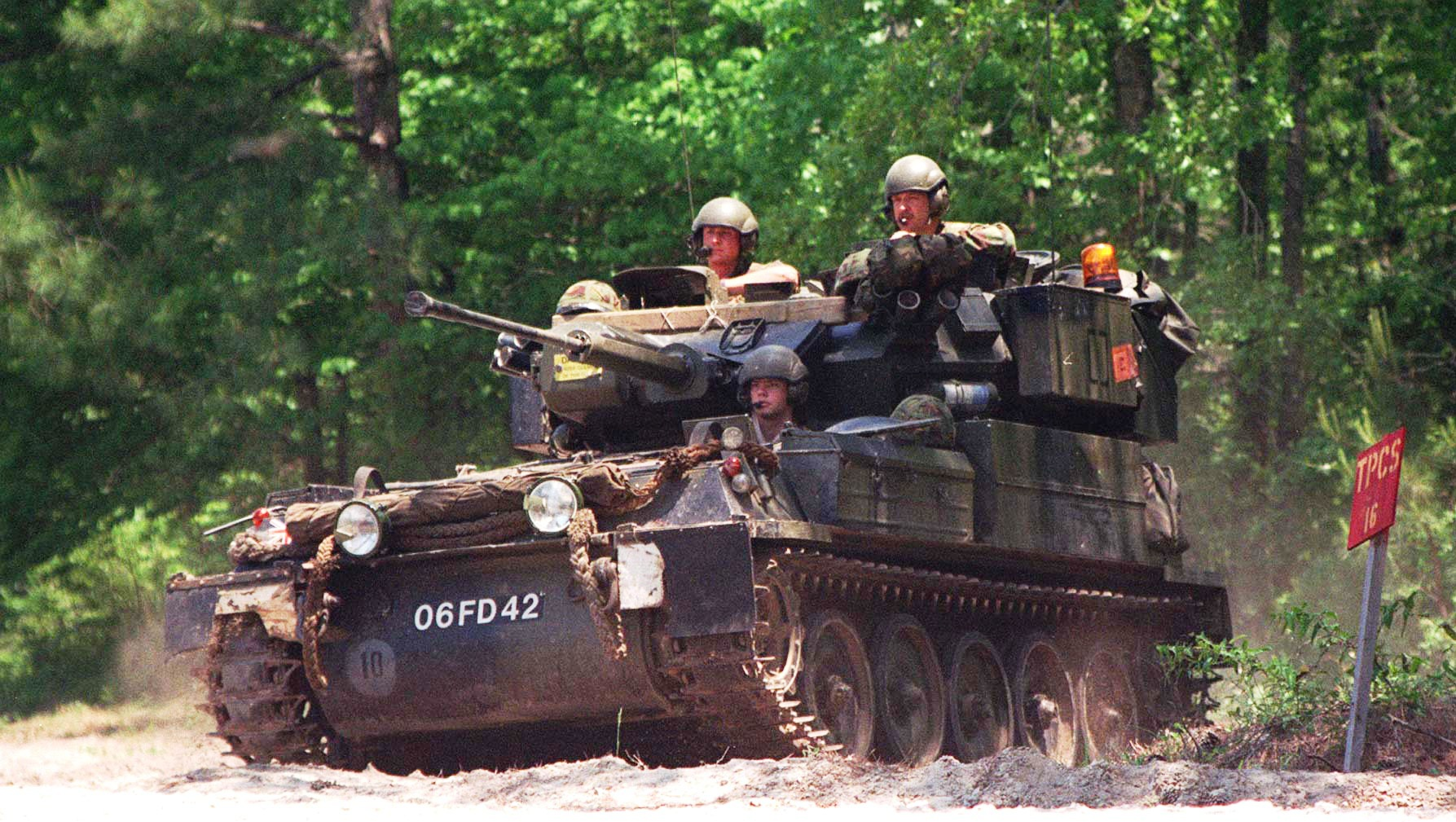 A British Royal Marine Combat Vehicle Reconnaissance (Tracked) Scimitar sits in a hide site during a 45 Commando assault at Camp Lejeune, N.C., on May 11, 1996, as part of Combined Joint Task Force Exercise '96. More than 53,000 military service members from the United States and the United Kingdom are participating in Combined Joint Task Force Exercise '96 on military installations in the Southeastern United States and in waters along the Eastern seaboard.